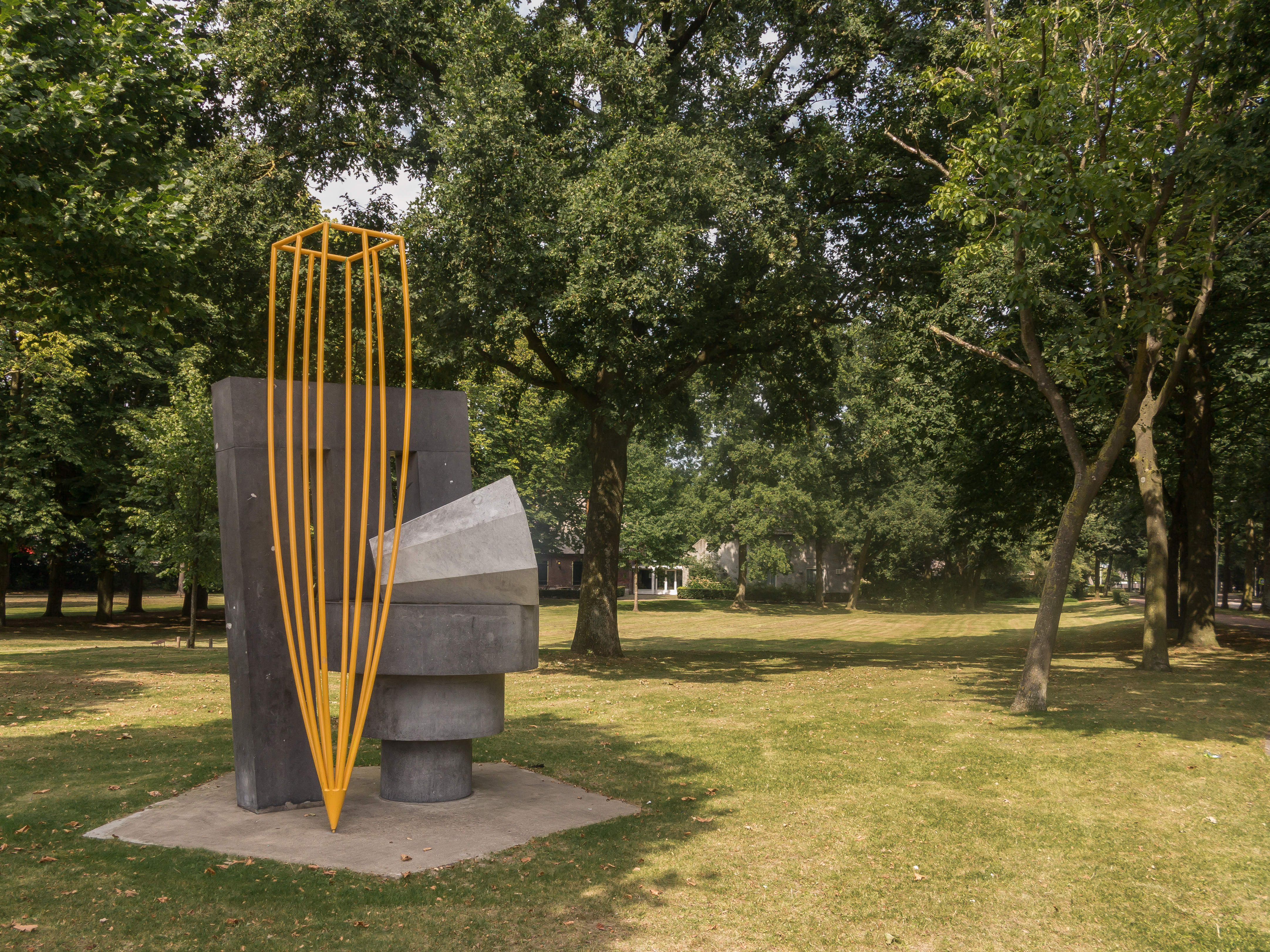 Berkel-Enschot, sculpture